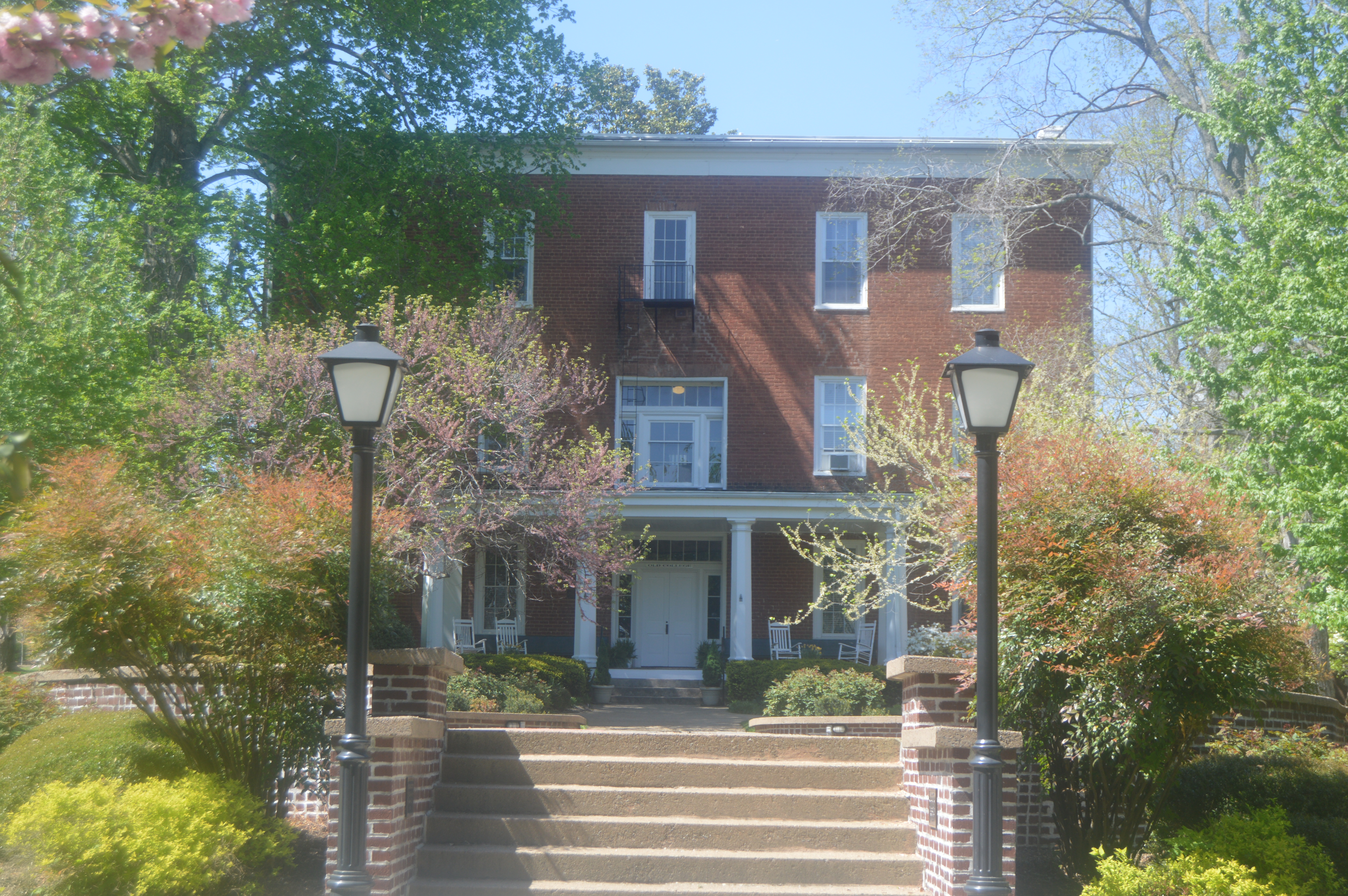 Front of Old College, the original building on the campus of Tennessee Wesleyan College in Athens, Tennessee, United States. Built in 1857, it is listed on the National Register of Historic Places.